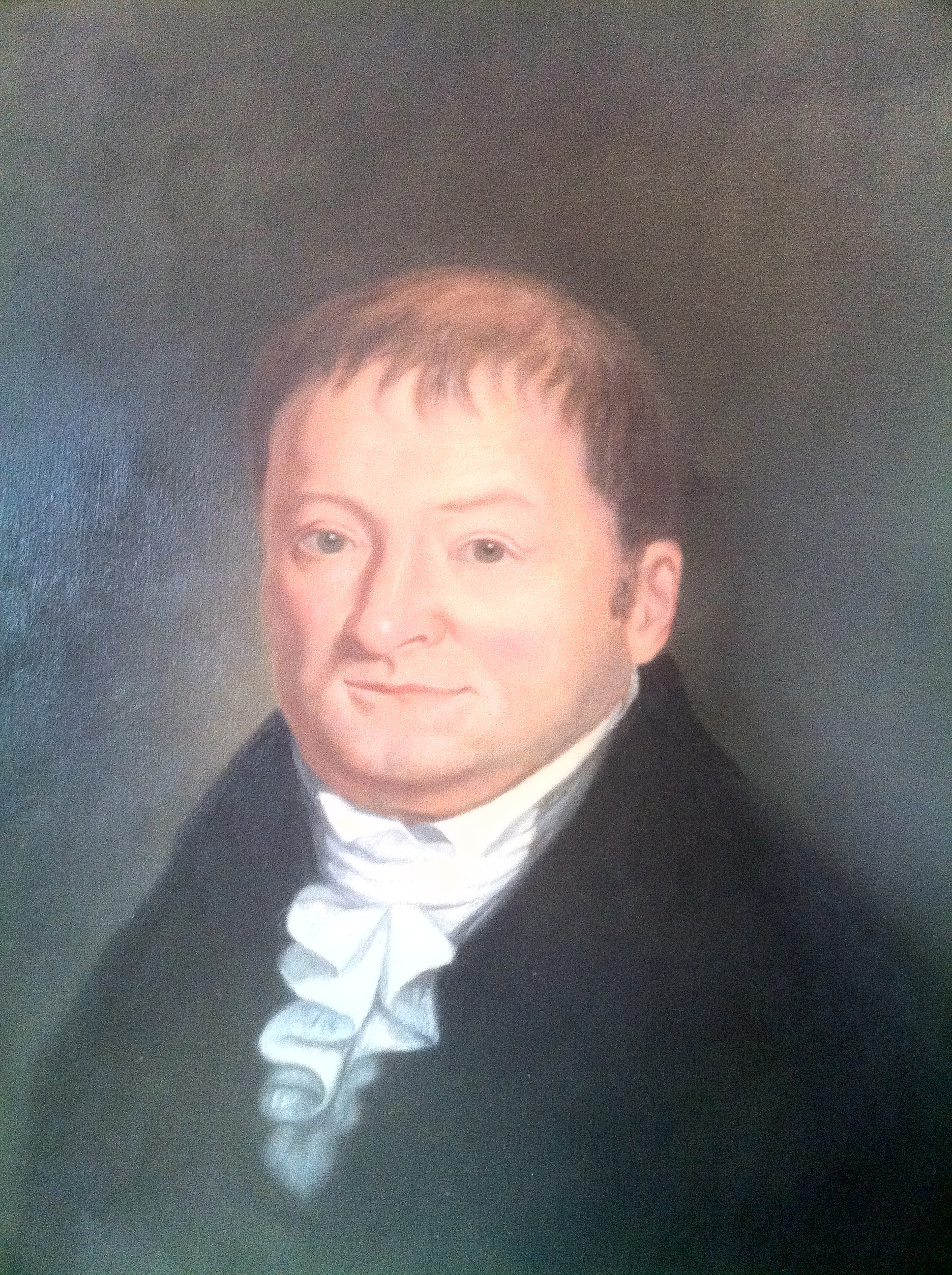 Painting of the clockmaker Aaron Willard by John Ritto Penniman, housed in the Willard House and Clock Museum in North Grafton, MA.